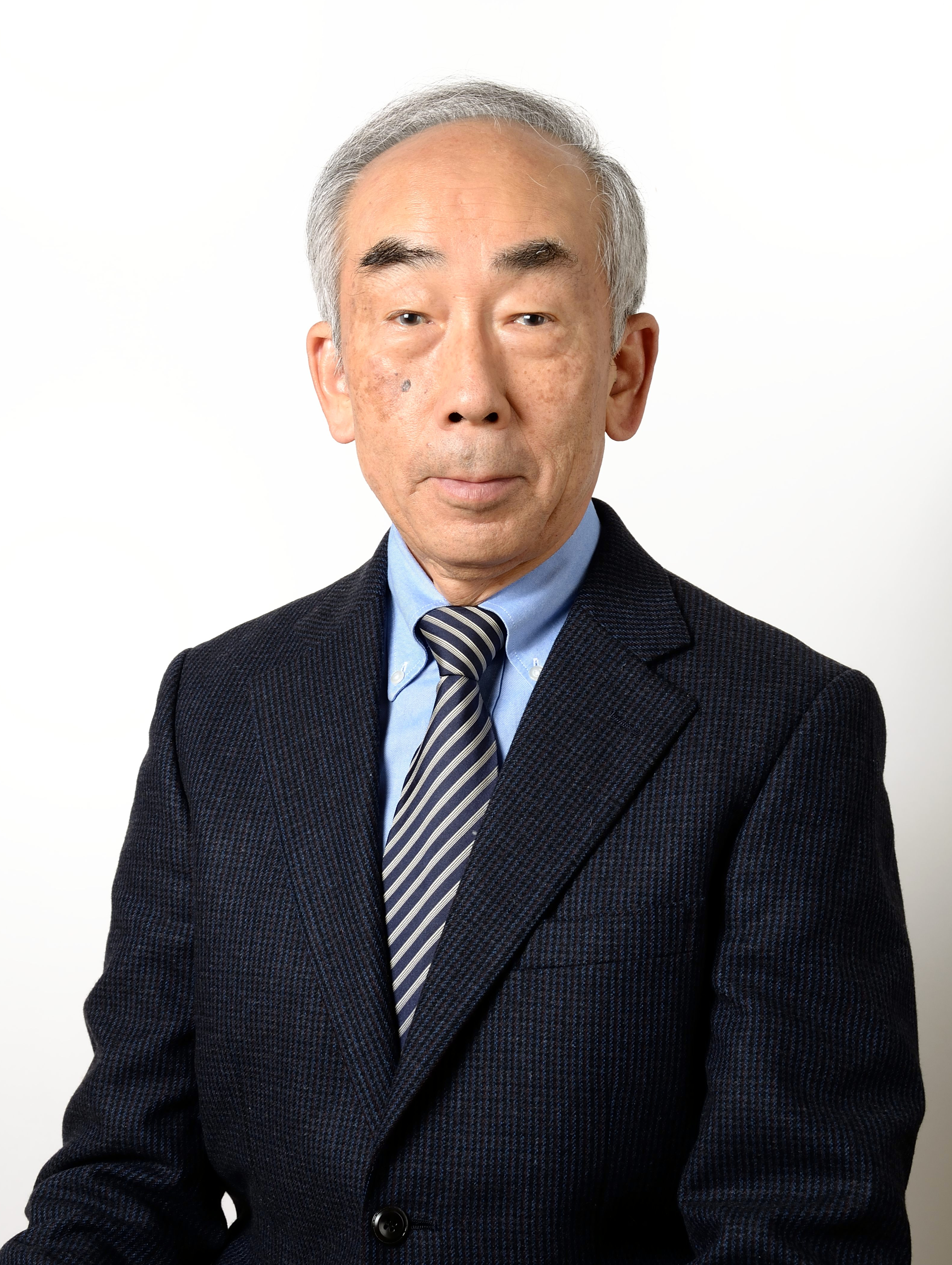 Sadaoki Furui, President of Toyota Technological Institute at Chicago, received the Person of Cultural Merit on November, 2016.